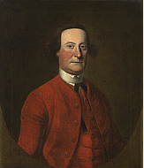 Major General John Bradstreet, an officer in the British Army.